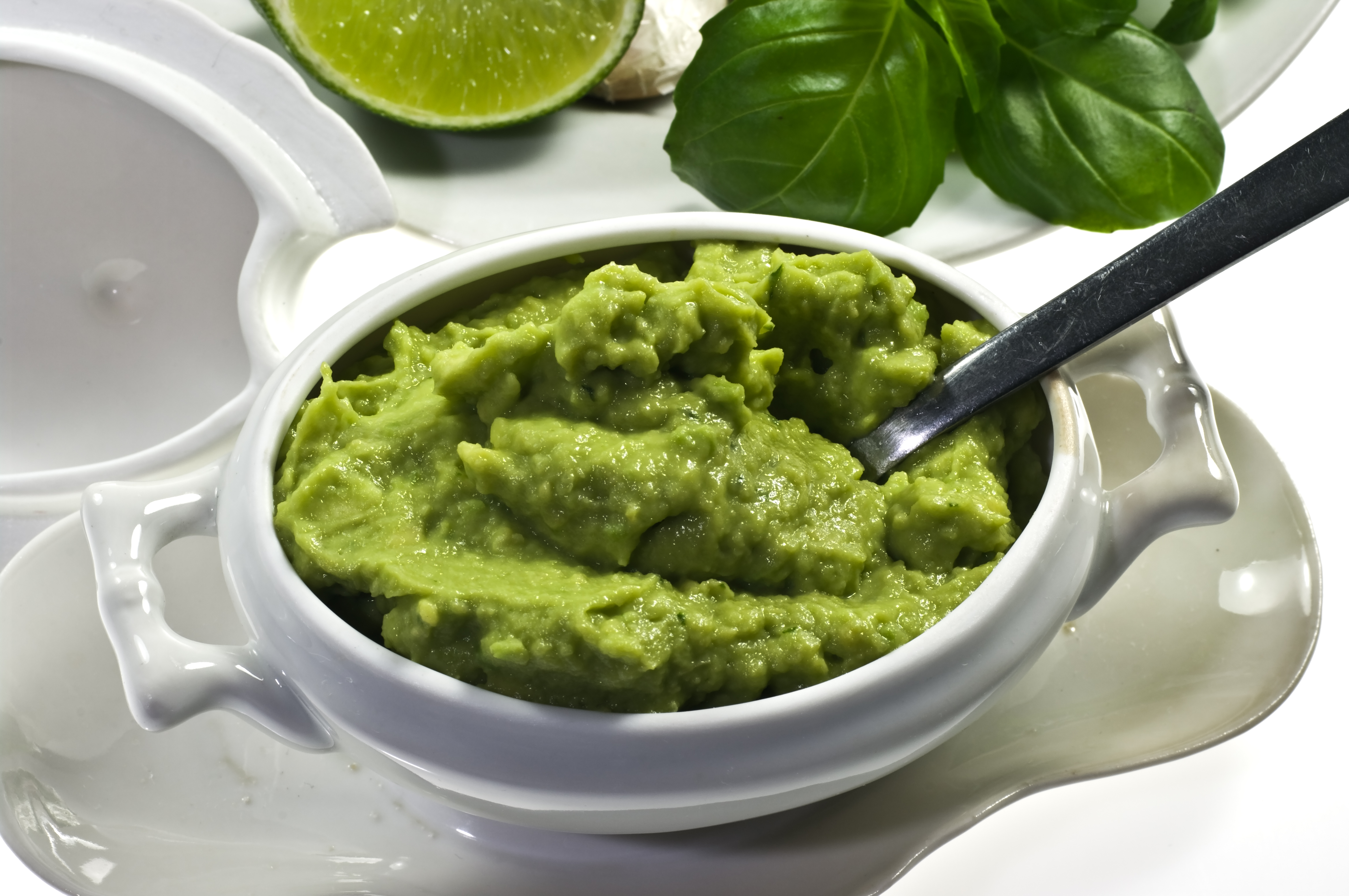 Guacamole - avocado-based dip originated in Mexico